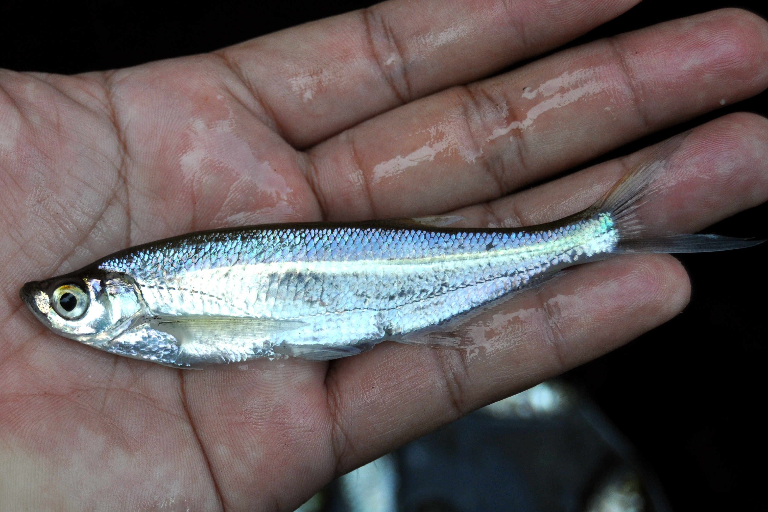 Oxygaster anomalura, 100 mm SL (standard length). From Kampung Lembonah, Jempang, Kutai Barat, East Kalimantan, Indonesia.